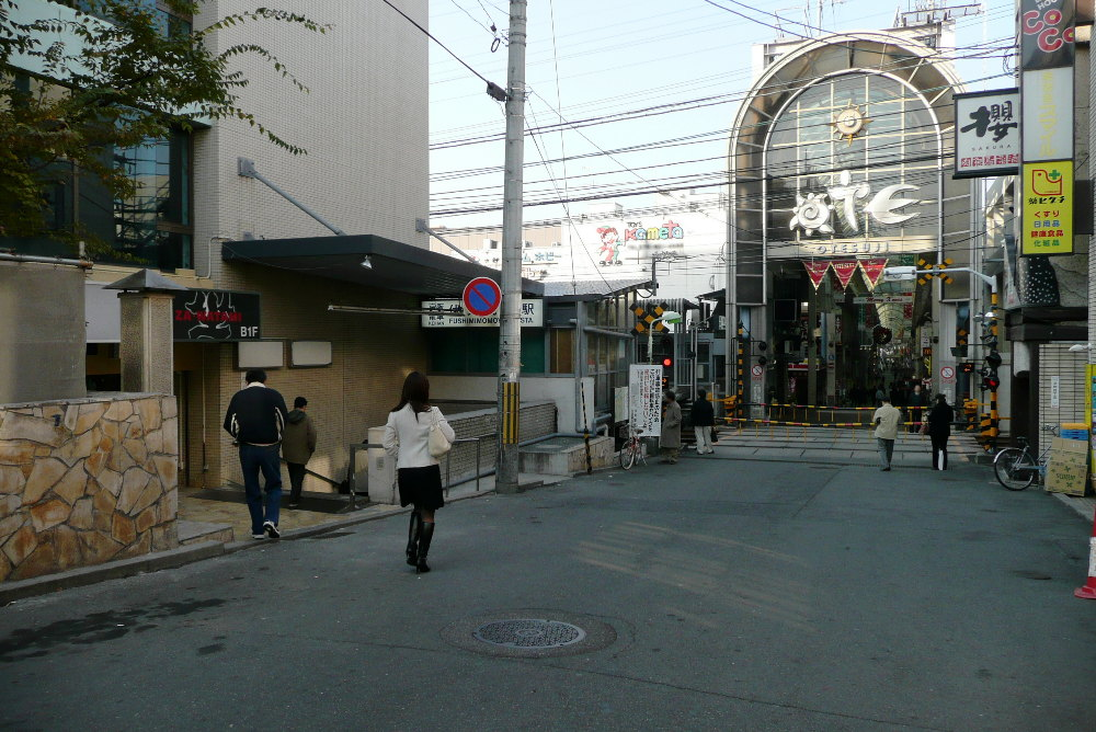 Keihan Main Line Fushimi-Momoyama Station